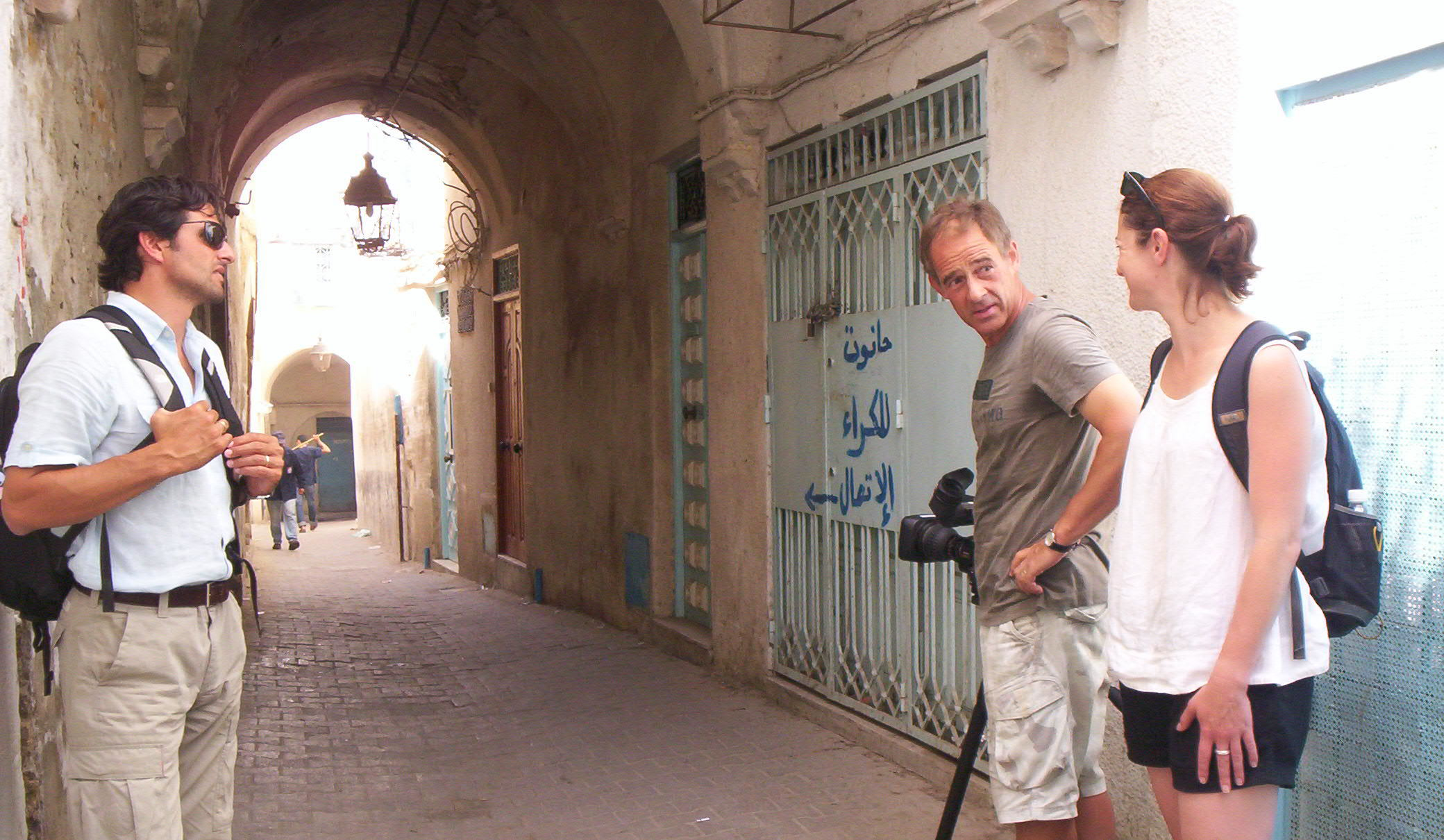 Darius Arya, Tunis Souk